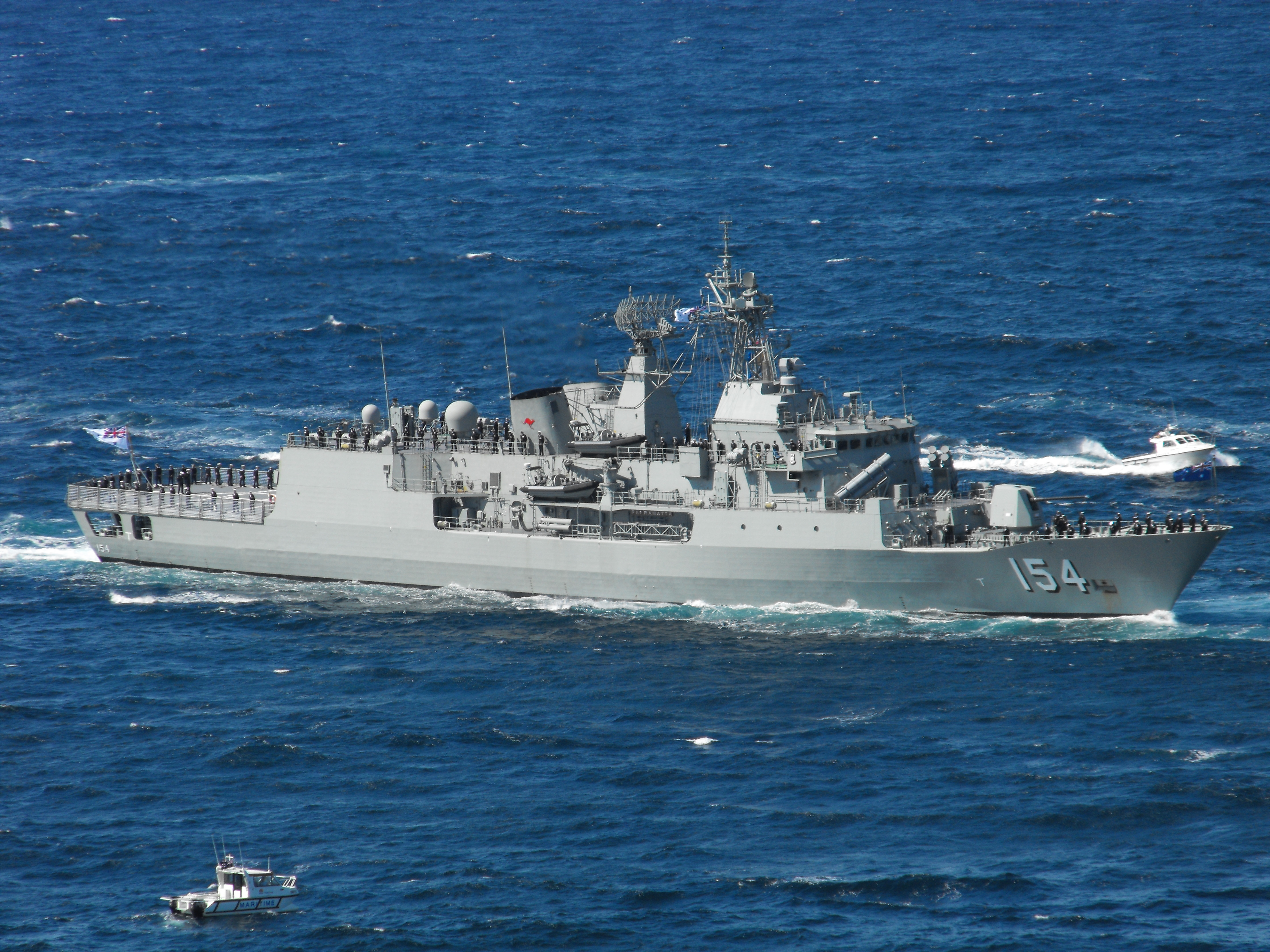 Photographs taken during day 2 of the Royal Australian Navy International Fleet Review 2013. Australian frigate Parramatta entering Sydney Harbour.